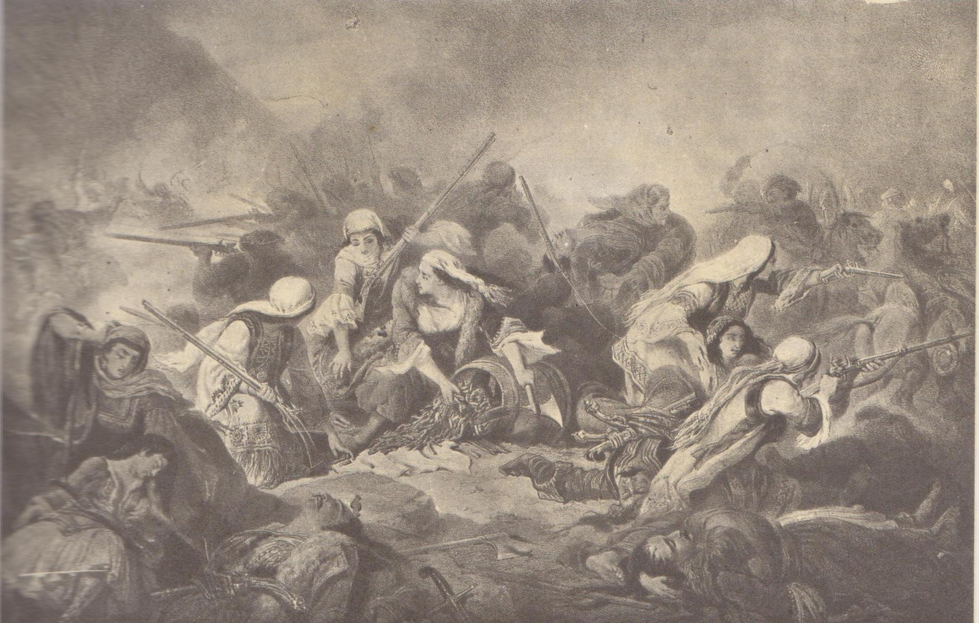 Women of Suli